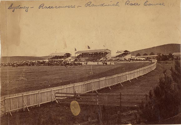 A Day at the Races' - a collection from the State Government of NSW This file was posted to Flickr by the State Library of New South Wales (NSW). See also their website. This tag does not indicate the copyright status of the attached work. A normal copyright tag is still required. See Commons:Licensing for more information. This image is of Australian origin and is now in the public domain because its term of copyright has expired. According to the Australian Copyright Council (ACC), ACC Information Sheet G023v17 (Duration of copyright) (August 2014).3 Type of materialCopyright has expired if … A Photographs or other works published anonymously, under a pseudonym or the creator is unknown: taken or published prior to 1 January 1955BPhotographs (except A): taken prior to 1 January 1955CArtistic works (except A & B): the creator died before 1 January 1955DPublished editions1 (except A & B): first published more than 25 years agoECommonwealth, State or Territory owned2 photographs and engravings: taken or published more than 50 years ago 1 means the typographical arrangement and layout of a published work. eg. newsprint. 2 owned means where a government is the copyright owner as well as would have owned copyright but reached some other agreement with the creator. 3 Copyright Amendment (Disability Access and Other Measures) Bill 2017 (Australian Government) When using this template, please provide information of where the image was first published and who created it.